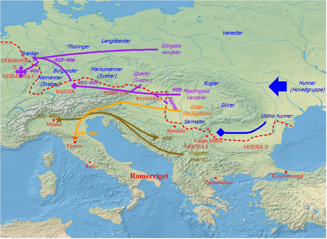 This is the Danish version of the file AD 0401 Pressure on the Roman borders EN.png.